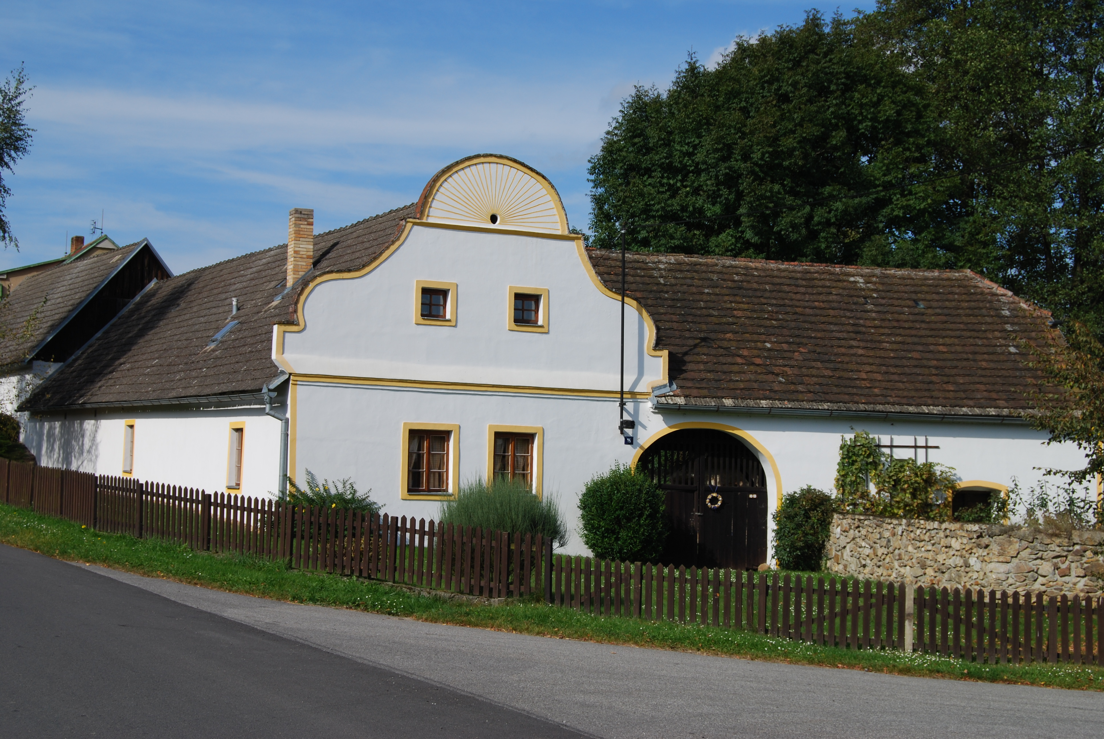 Bílsko village in Strakonice District, Czech Republic.